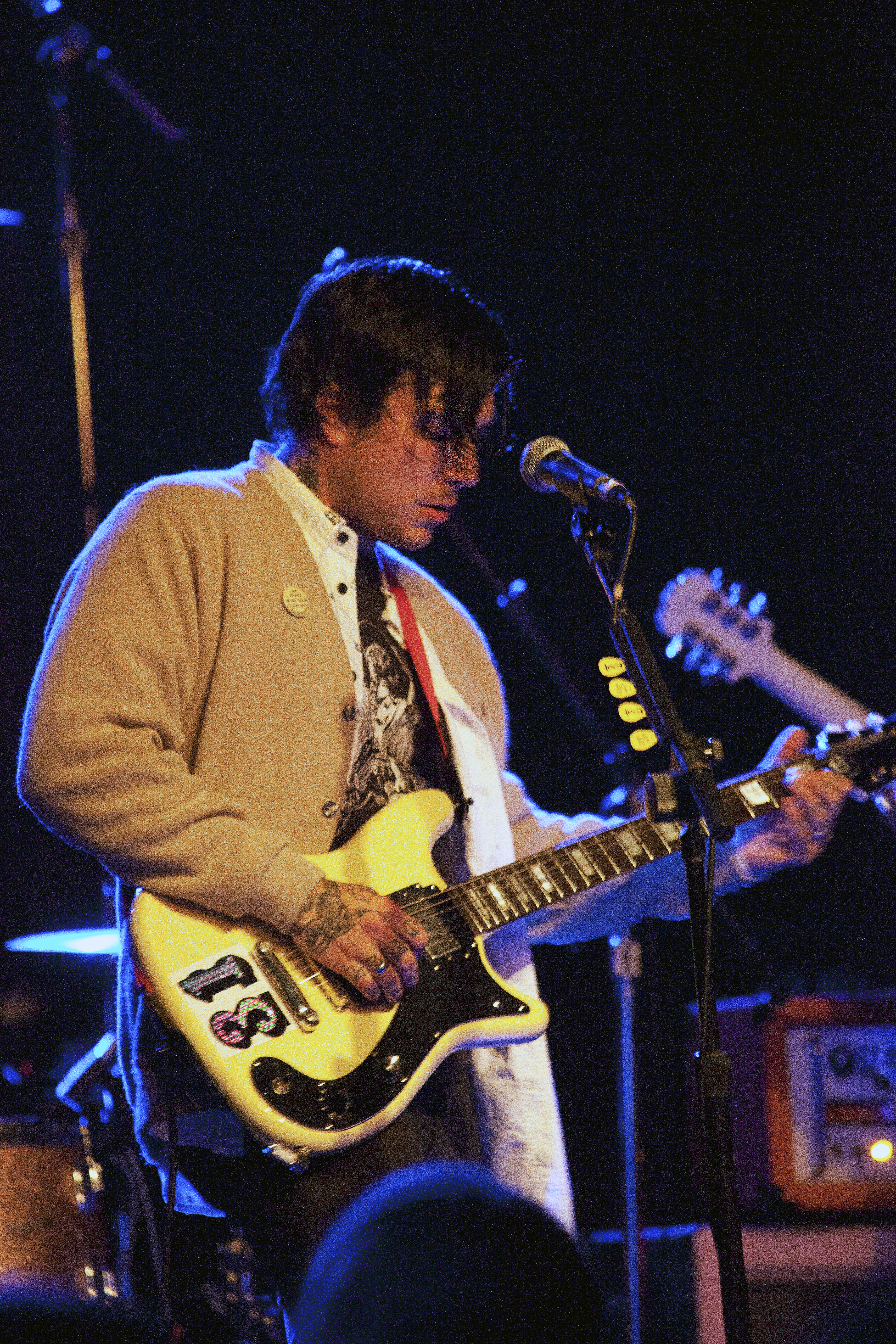 Frank Iero (FRNKIERO ANDTHE CELLABRATION) opening for Taking Back Sunday and The Used on 09/26/2014 at the Roseland Theater in Portland, Oregon